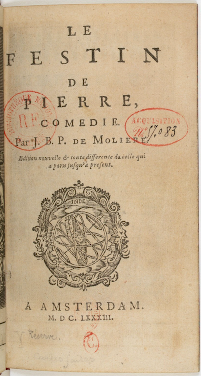 This is an image of the actual title page of the book "Le festin de pierre", which is a play by Moliere that is commonly known as "Don Juan". It was pirated and published in Amsterdam in 1683. This book is the first publication of the uncensored version of the play.